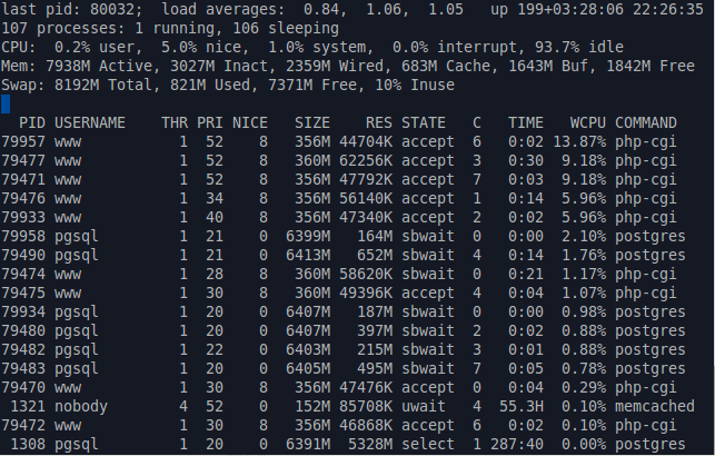 A screenshot of the BSD unix "top" utility on a web server. The screenshot does not include output of any additional applications.